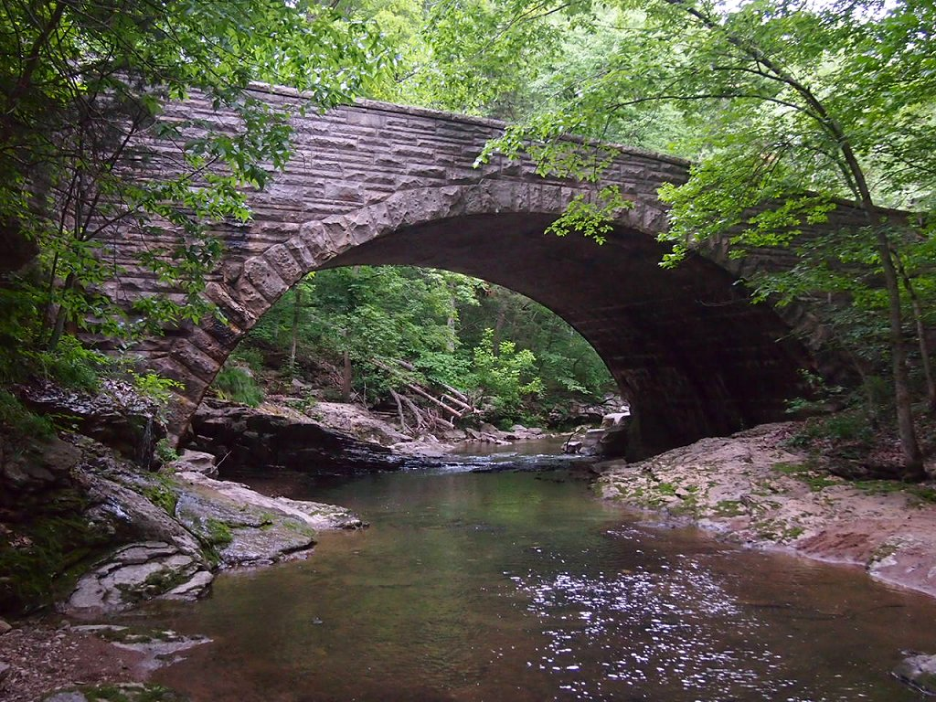 Stone Arch Bridge over McCormick's Creek, McCormick's Creek State Park, Indiana, USA. It took some committed scrambling and rock-hopping to get to this vantage point.